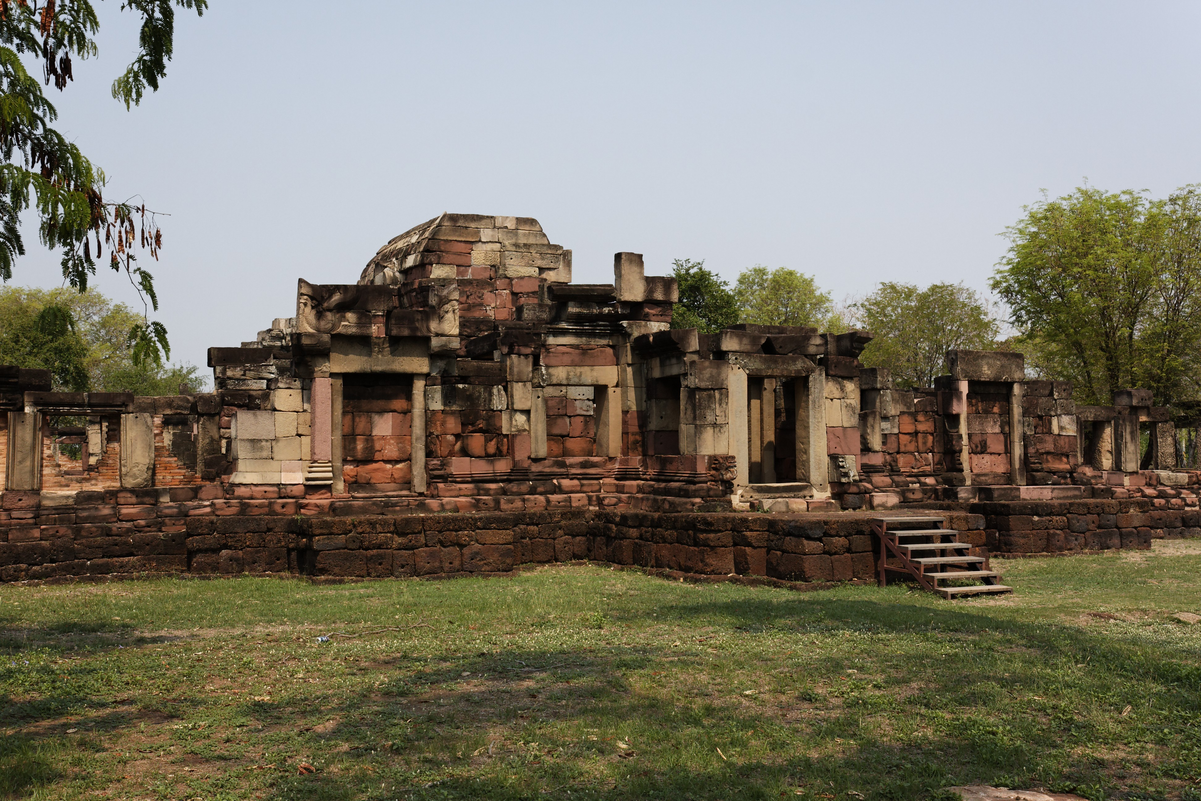 Prasat Phanom Wan, situated between the modern city of Korat (Nakhon Ratchasima) and the ancient site of Phimai.